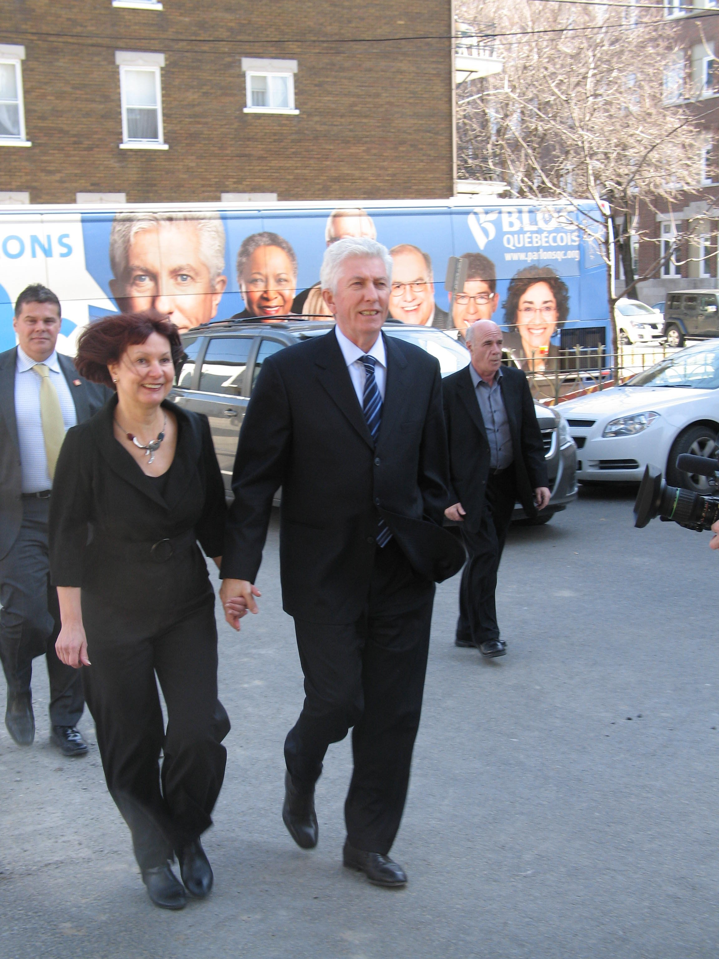 Bloc Québécois leader, Gilles Duceppe, and his wife Yolande Brunelle, during a visit of the École de cirque de Québec, in the La Cité-Limoilou borough of Quebec City, on April 15, 2011.